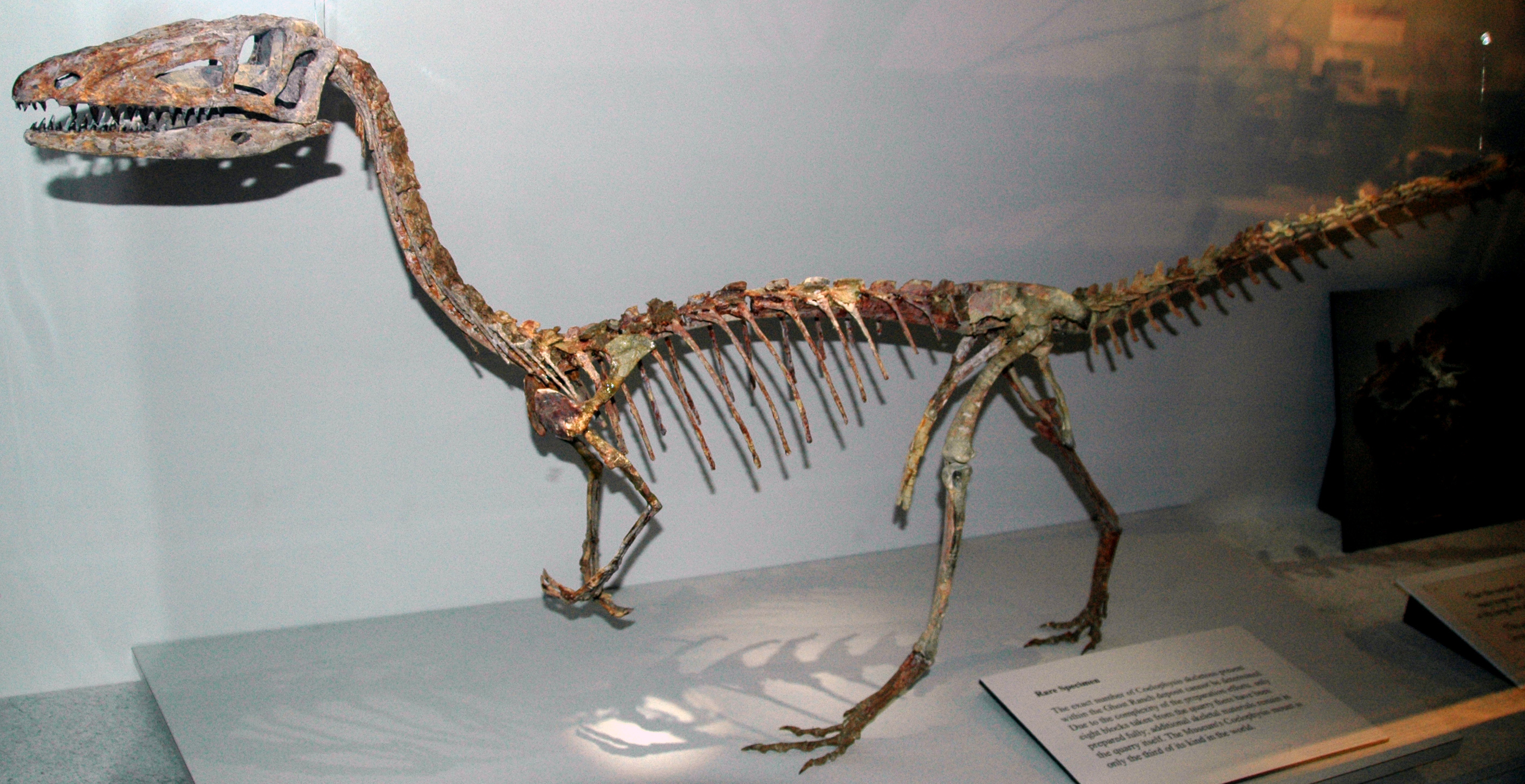 Coelophysis bauri (Cope, 1887) theropod dinosaur from the Triassic of New Mexico, USA. This is a remarkable complete skeleton of the small early theropod Coelophysis. It comes from a nearly monospecific concentration of numerous complete to disarticulated skeletons in reddish-colored fluvial siltstones, often called a "Coelophysis graveyard". This occurrence has been interpreted as a carcass-jammed channel filling following mass mortality of dinosaurs by regional drought (see Schwartz & Gillette, 1994). Stratigraphy: Rock Point Member, Chinle Formation, Upper Triassic Locality: Whitaker Quarry (Coelophysis Quarry), Ghost Ranch, Rio Arriba County, northern New Mexico, USA Some info. from: Hunt, A.P. & S.G. Lucas. 1991. Rioarribasaurus, a new name for a Late Triassic dinosaur from New Mexico (USA). Paläontologische Zeitschrift 65: 191-198. Schwartz, H.L. & D.D. Gillette. 1994. Geology and taphonomy of the Coelophysis Quarry, Upper Triassic Chinle Formation, Ghost Ranch, New Mexico. Journal of Paleontology 68: 1118-1130. Theropod were small to large, bipedal dinosaurs. Almost all known members of the group were carnivorous (predators and/or scavengers). They represent the ancestral group to the birds, and some theropods are known to have had feathers. Some of the most well known dinosaurs to the general public are theropods, such as Tyrannosaurus, Allosaurus, and Spinosaurus.